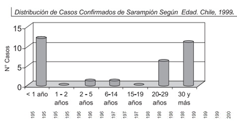 Dsitribución de casos confirmados de Sarampión segun edad en Chile 1999